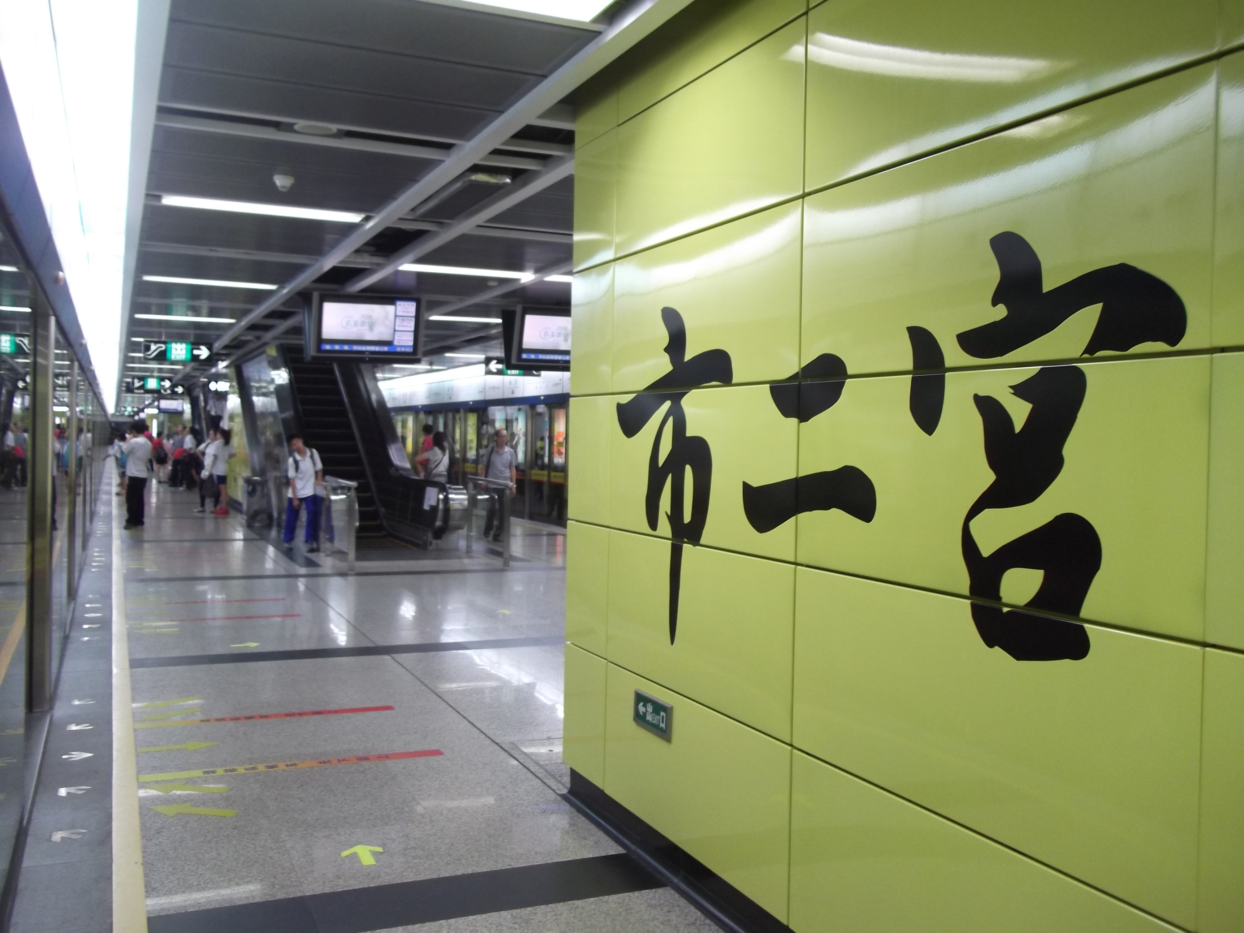 The 2nd Workers' Cultural Palace Station